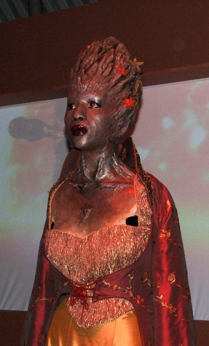 260506-022 Doctor Who Experience